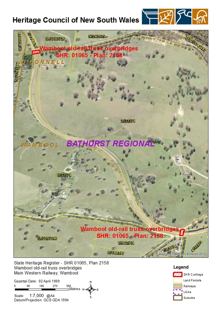 Wambool old-rail truss overbridges - SHR Plan 2158